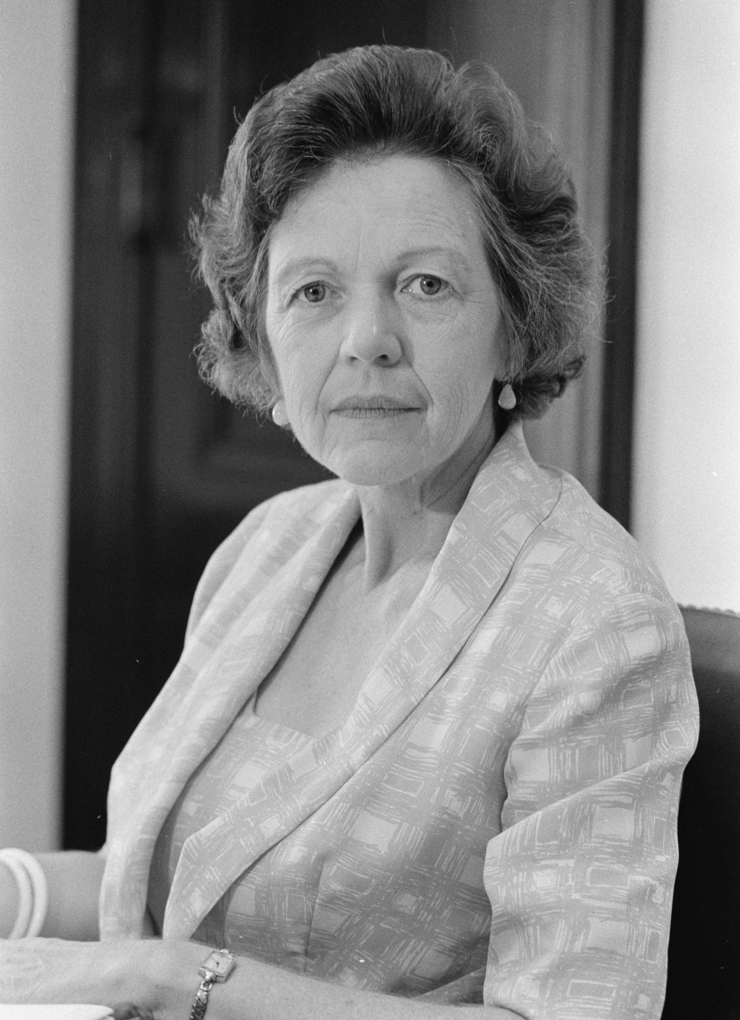 Senator Maurine B. Neuberger, half-length portrait, seated, facing left, in her office. EN: 07:50, August 1, 2005 . . Petaholmes (Talk | contribs | block) . . 441x640 (49,999 bytes) ( fairuse This image is used under the rationale of fair use, the images is held by the Library of Congress, LC-U9-8293-20, the website states that there are no known restrictions on publication; it is used in a biographical article which describes the)